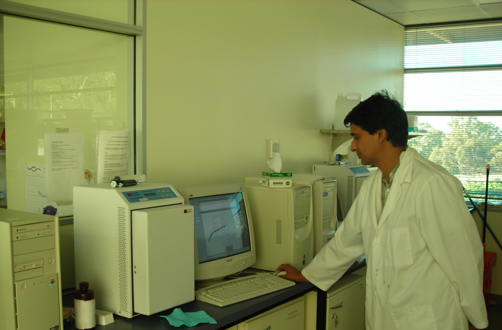 Modern instumentation in molecular biology has made plant breeding process more scientific.